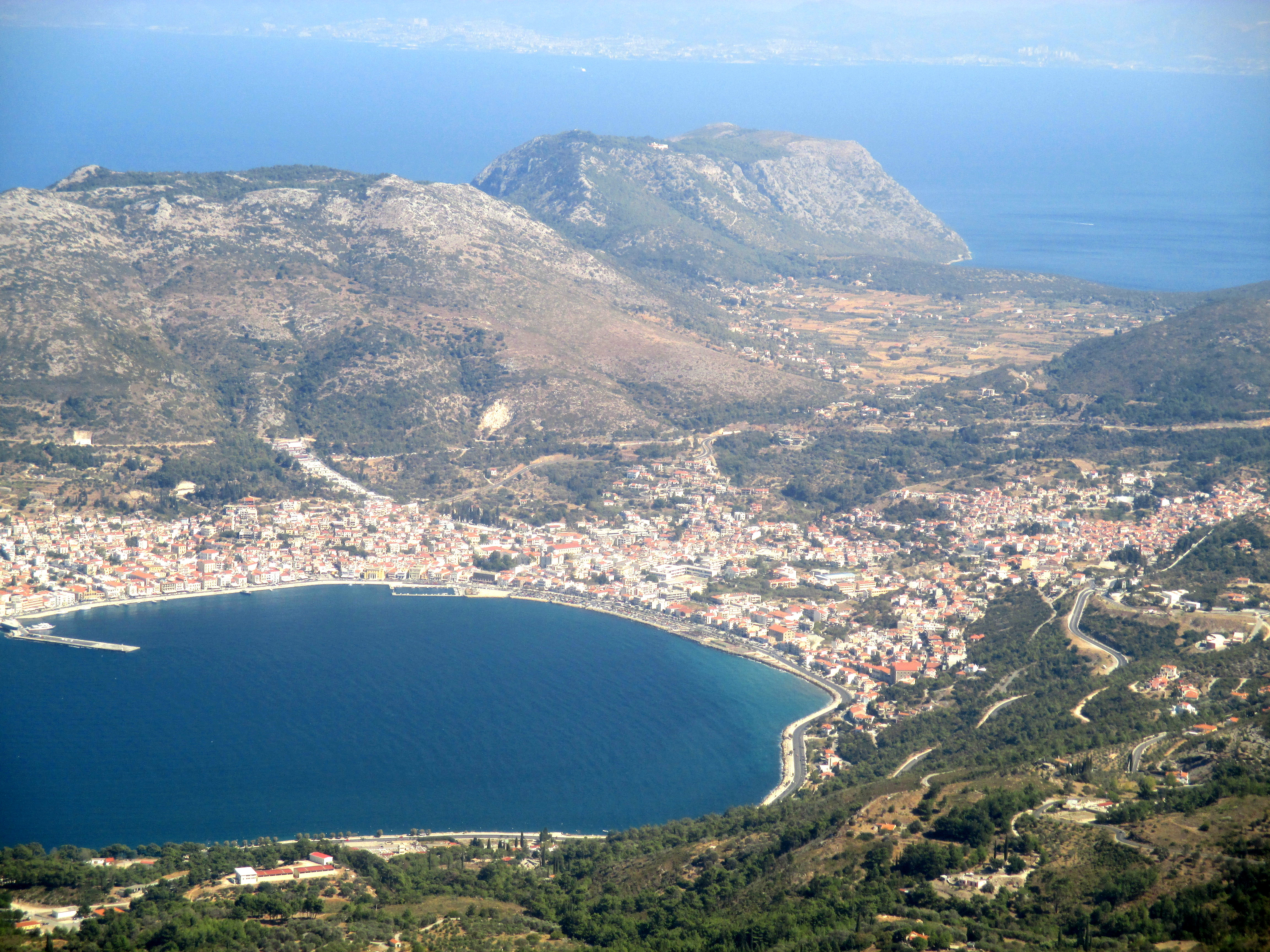 Samos town, Samos, Greece.